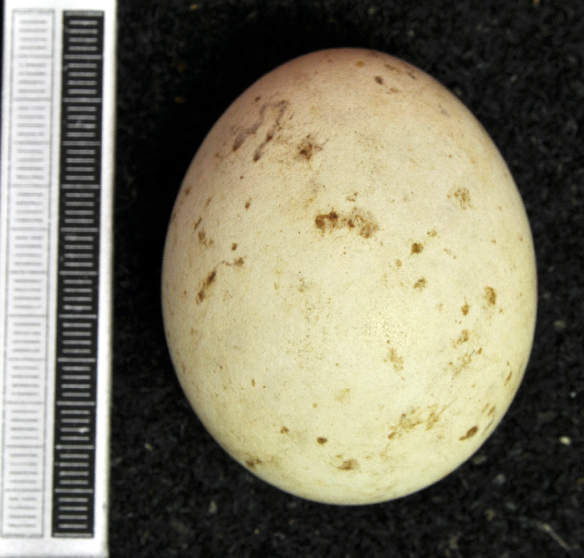 Rough-legged buzzard Buteo lagopus , egg, Coll. Museum Wiesbaden